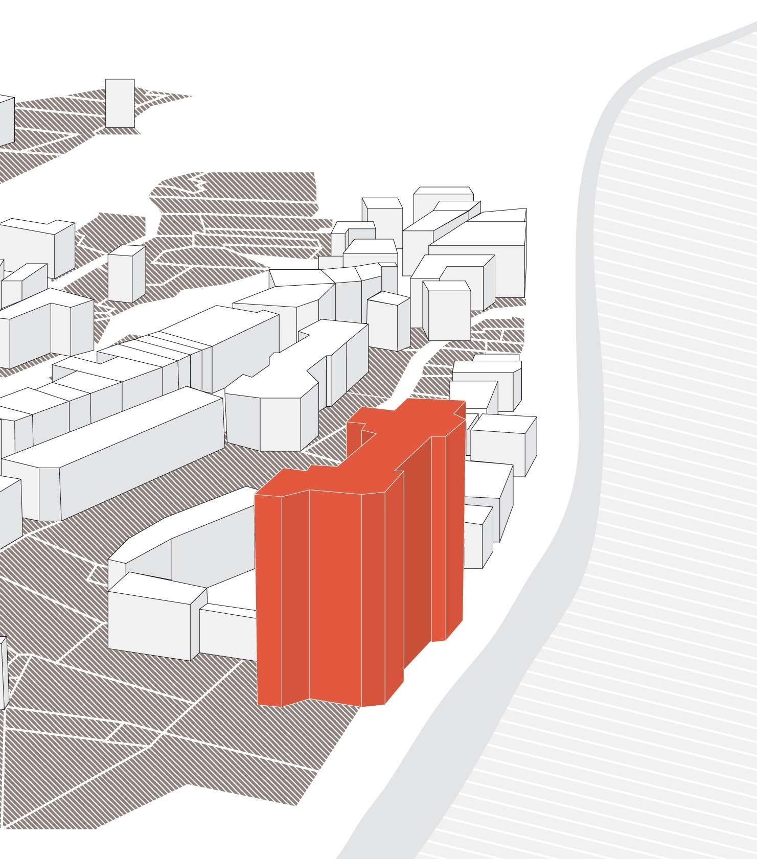 Chateau de montsoreau museum of contemporary art loire valley map 3D